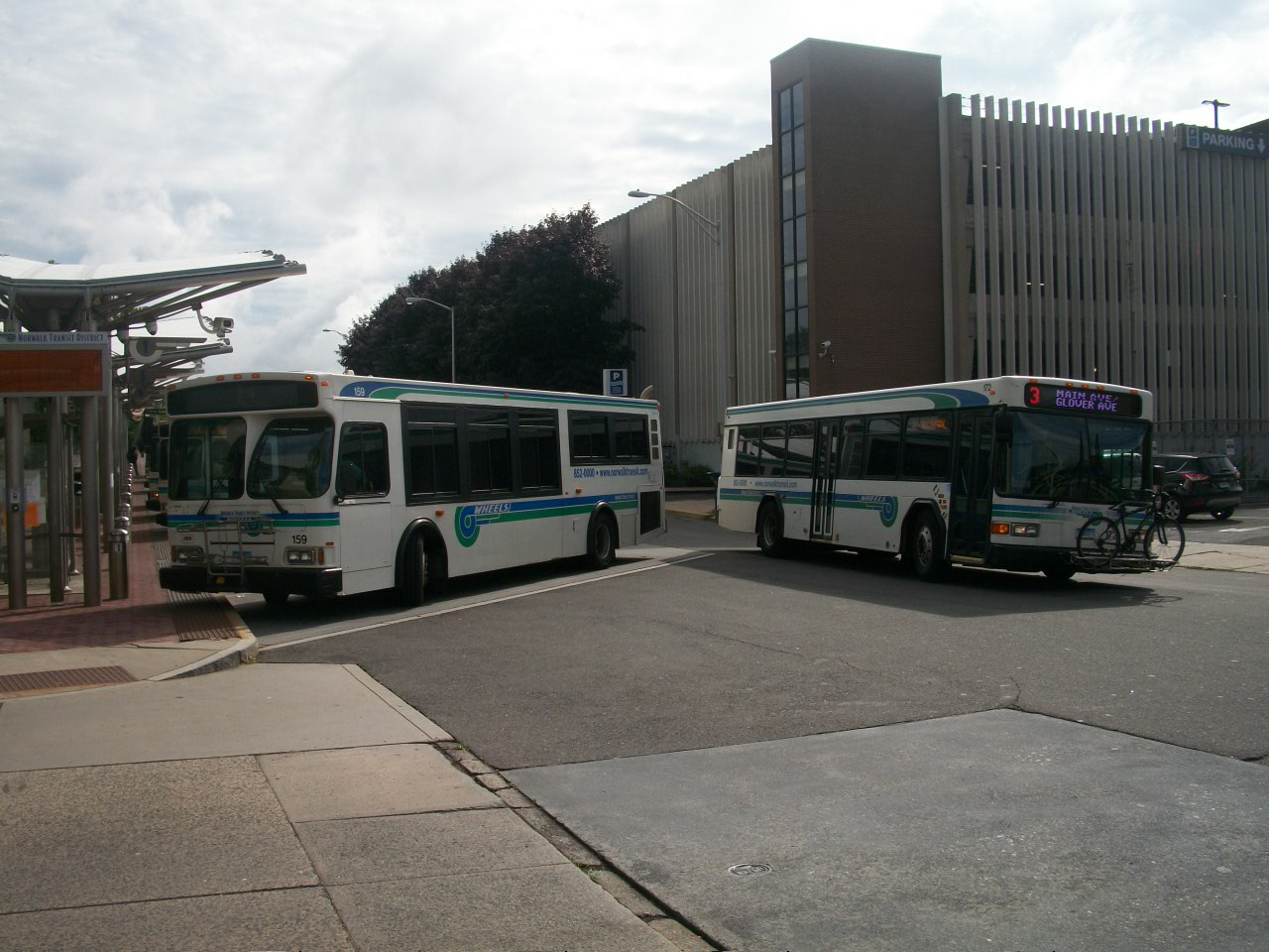 Norwalk wheels buses 159 and 172 in Norwalk Wheels Hub